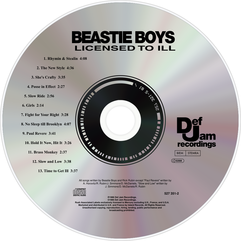 Compact disc of the Beastie Boys album Licensed to Ill. This is the European version of the album that was released in 1995 on Def Jam Recordings The album was originally released in 1986 on Def Jam Recordings.